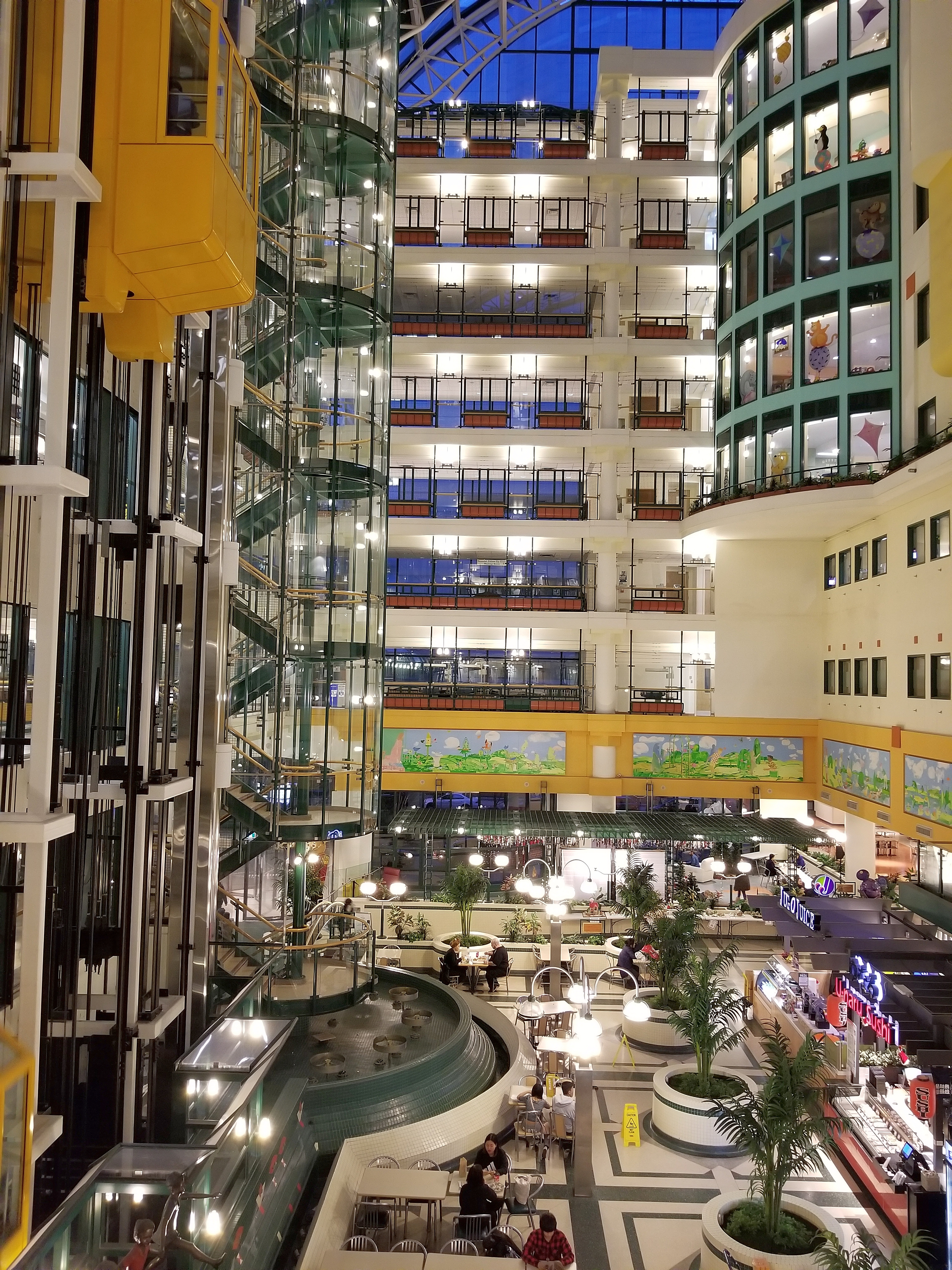 Atrium, The Hospital for Sick Children, Toronto, Canada.